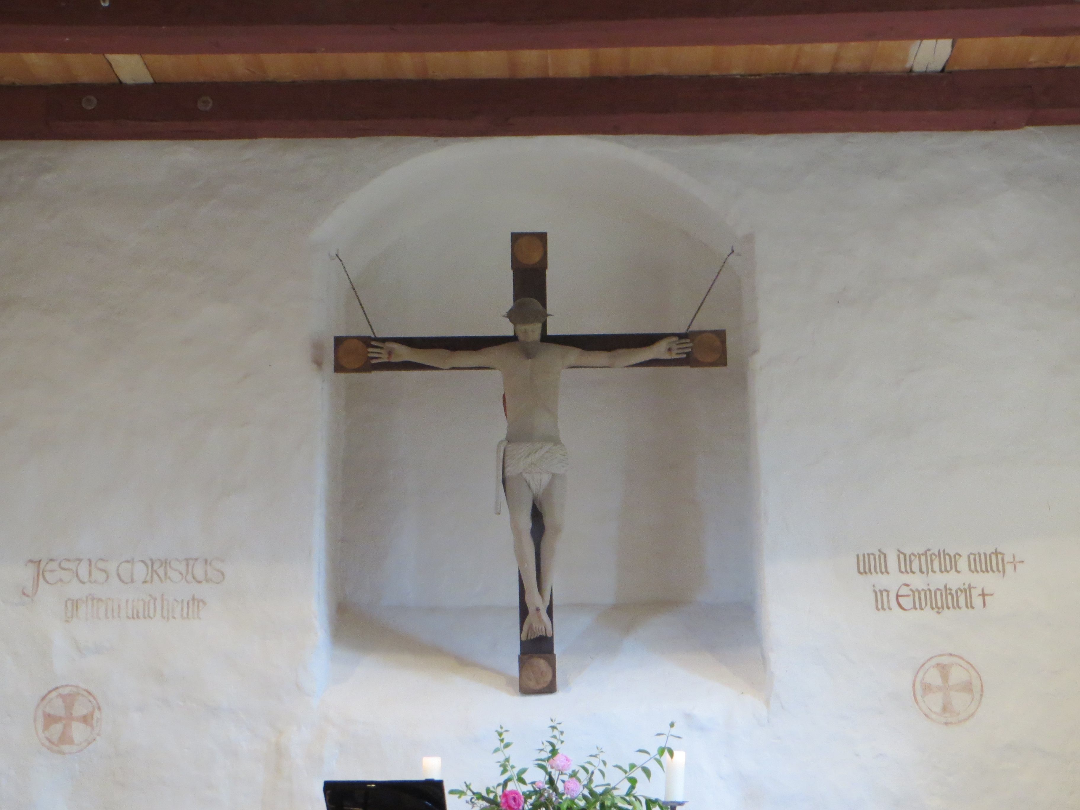 Church in Groß Bünzow